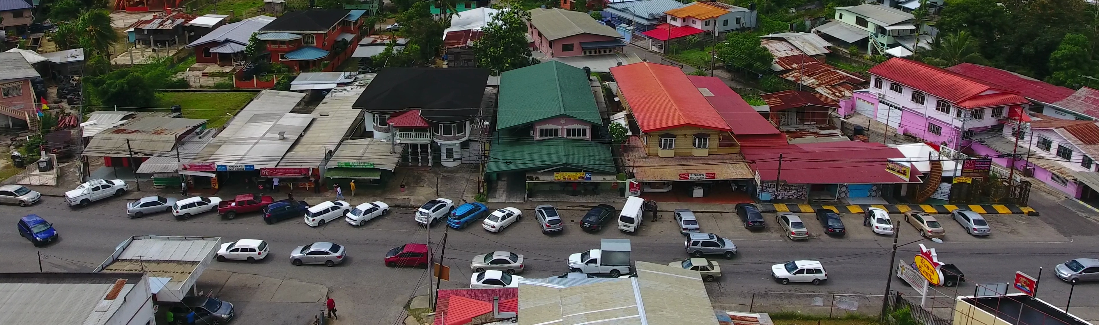 Street food stalls on S.S.Erin Road, Debe, Penal-Debe, Trinidad and Tobago. Allegedly Debe is famous for its street food - pholourie, rotis, saheenas, aloo pies etc. I can at least confirm they are very, very good. ;-) On the very left side there's the statue of chutney godfather Sundar Popo. Photo taken as part of the Southern Trinidad Aerial Photo Project, a small project sponsored by WMDE. Drone used: DJI Phantom 4. Snapshot taken from video footage via VLC, then cropped with IrfanView.